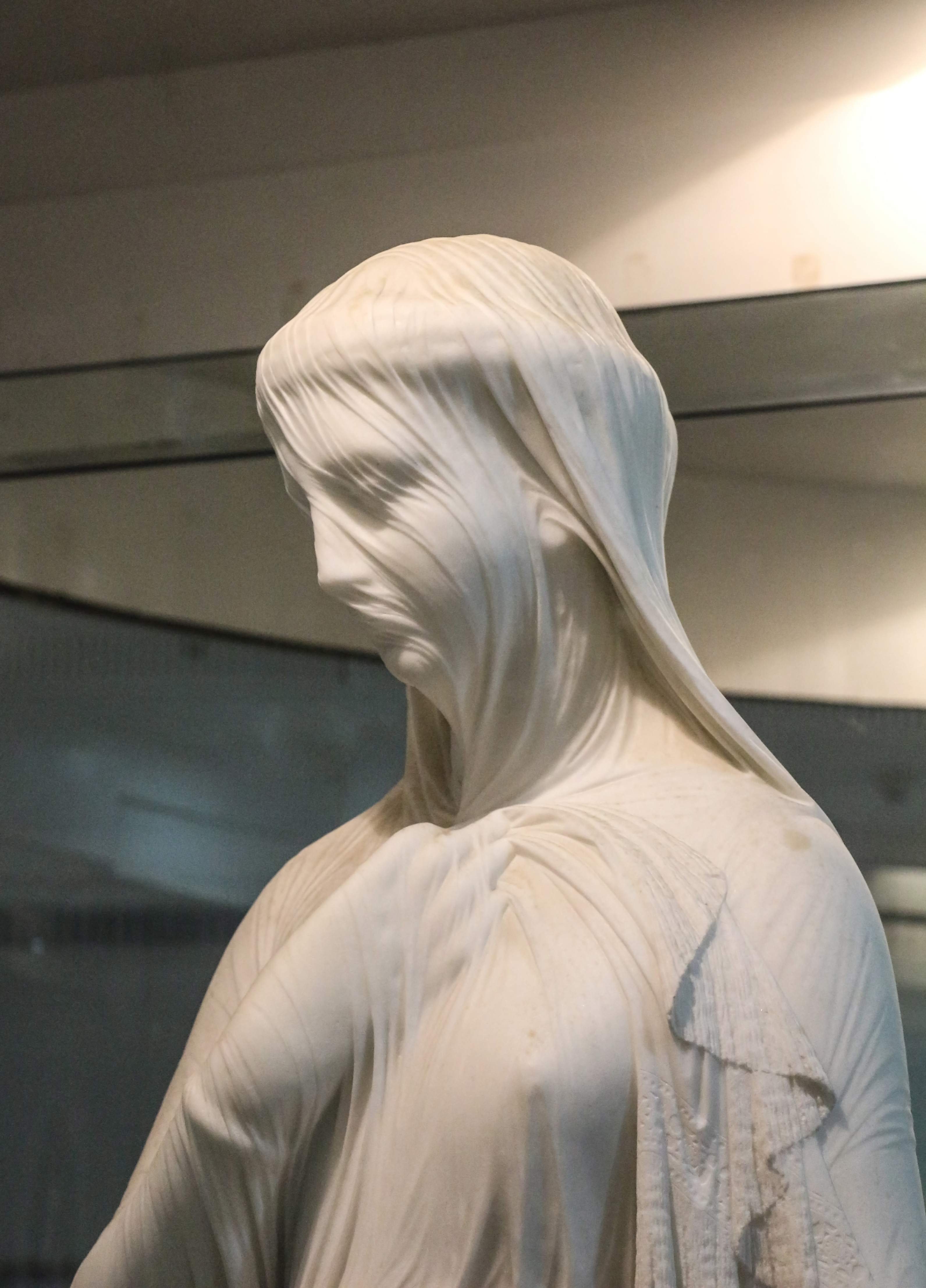 The Veiled Rebecca at the Salar Jung Museum, Hyderabad, India